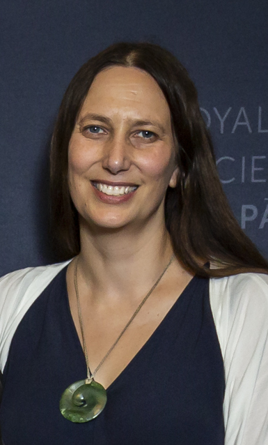 Ngā Pae o te Māramatanga, New Zealand's Māori Centre of Research Excellence, has received the inaugural Te Rangaunua Hiranga Māori Award by Royal Society Te Apārangi, which recognises excellent, innovative co-created research conducted by Māori that has made a distinctive contribution to community wellbeing and development in Aotearoa. This was at Research Honours Aotearoa, an annual awards ceremony that recognises achievements and contributions of innovators, kairangahau Māori, researchers and scholars in science, technology and humanities throughout Aotearoa New Zealand, which was held in Ōtepoti Dunedin on 17 Whiringa-ā-nuku October 2019. Representing Ngā Pae o te Māramatanga here is Tahu Kukutai, Michael Walker, Charles Royal, Mason Durie, Ngahuia te Awekotuku, Jacinta Ruru and Linda Waimarie Nikora.